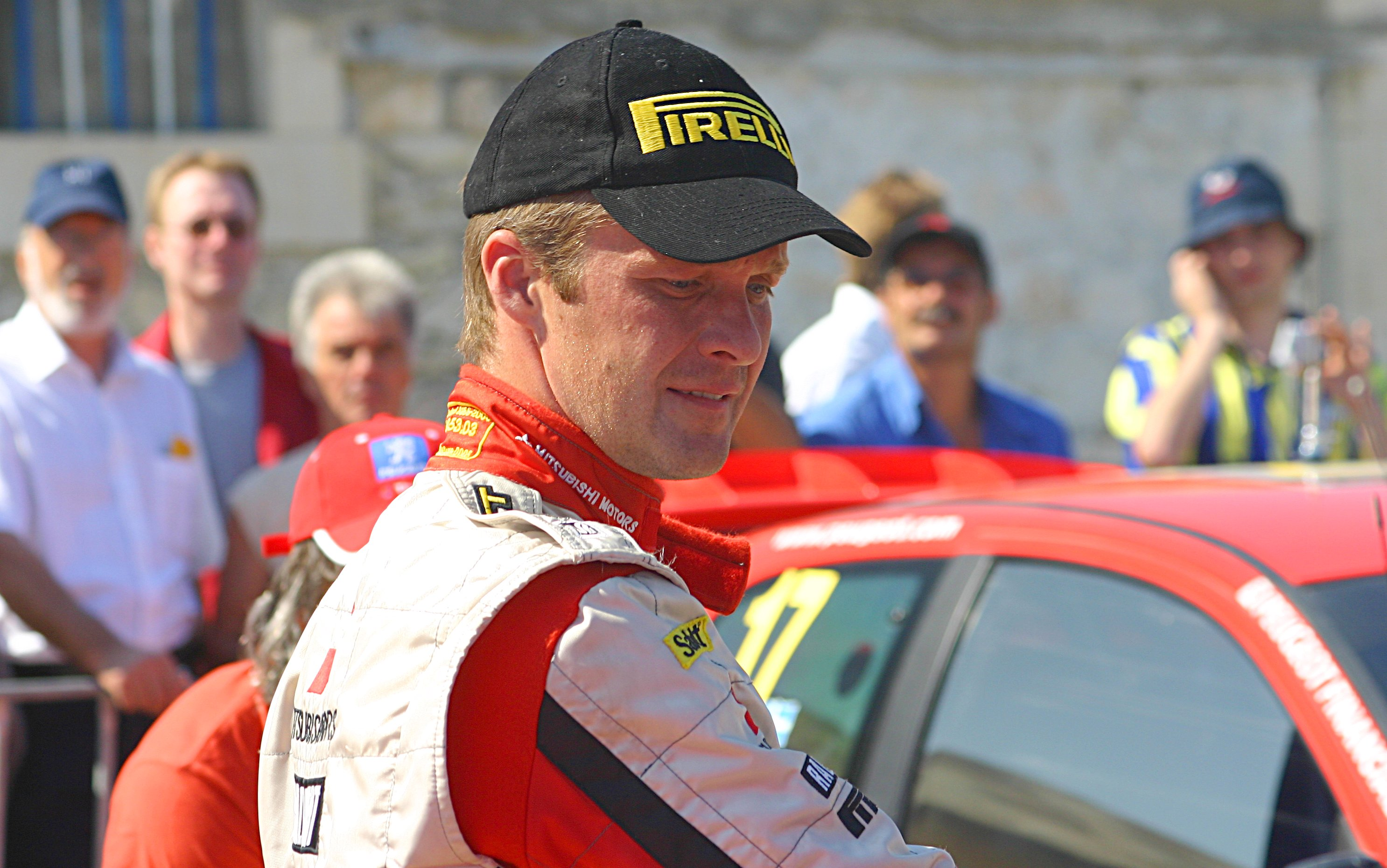 Harri Rovanperä at the 2005 Cyprus Rally.